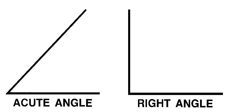 Comparison of an acute angle with a right angle.